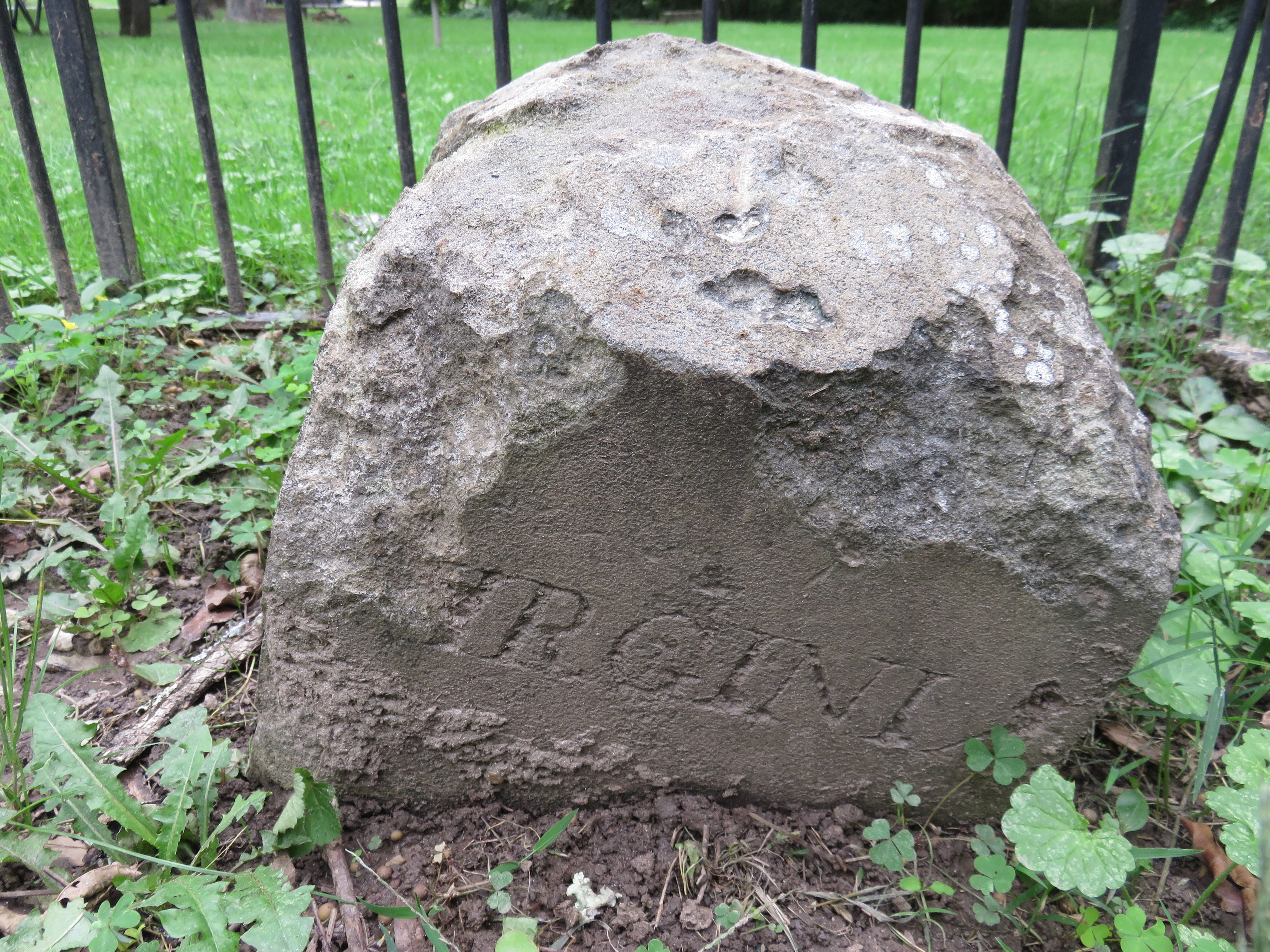 Southwest No. 9 Boundary Marker of the Original District of Columbia in 2017